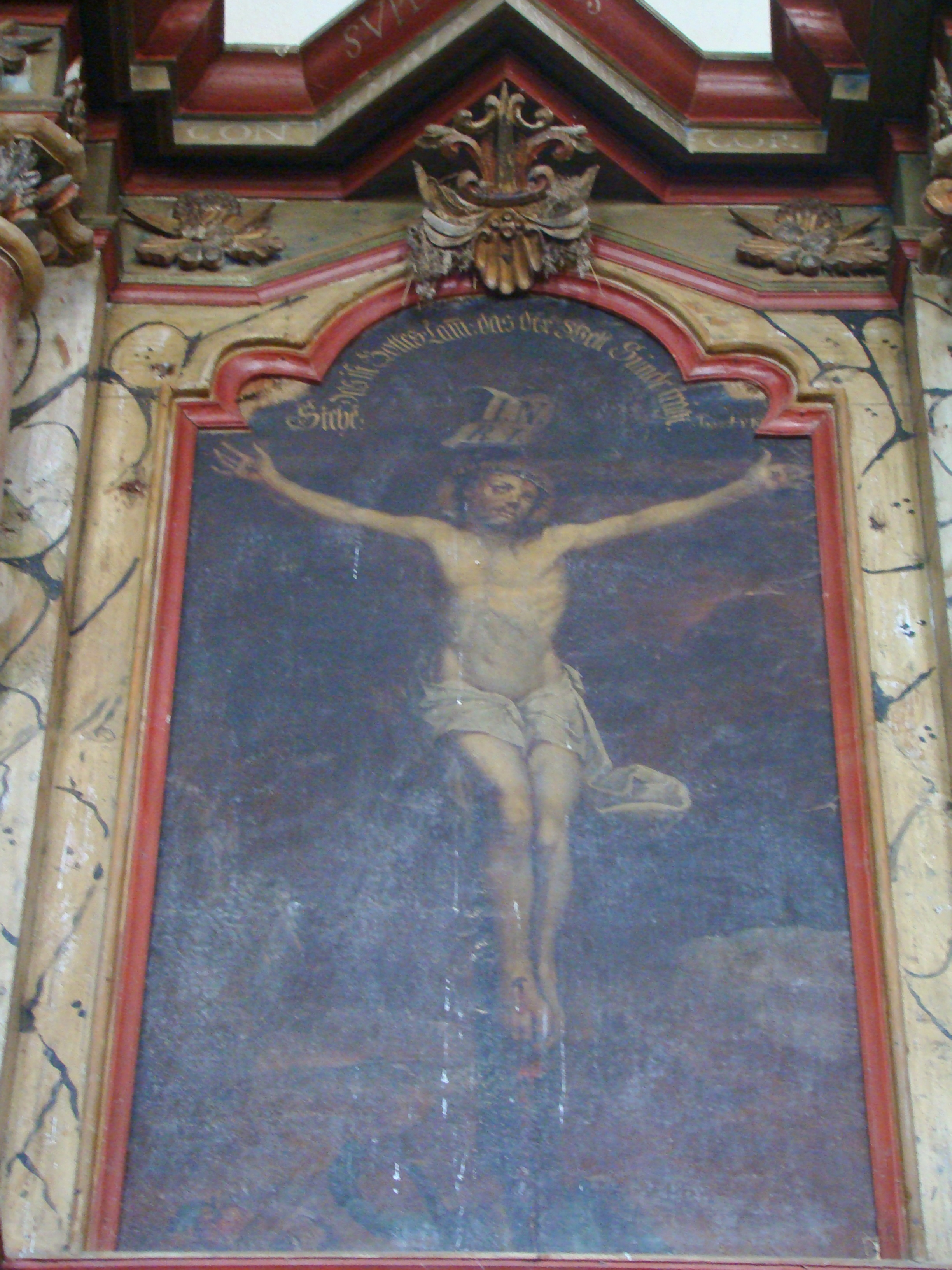 Fortified church in Ungra, Braşov County, Romania